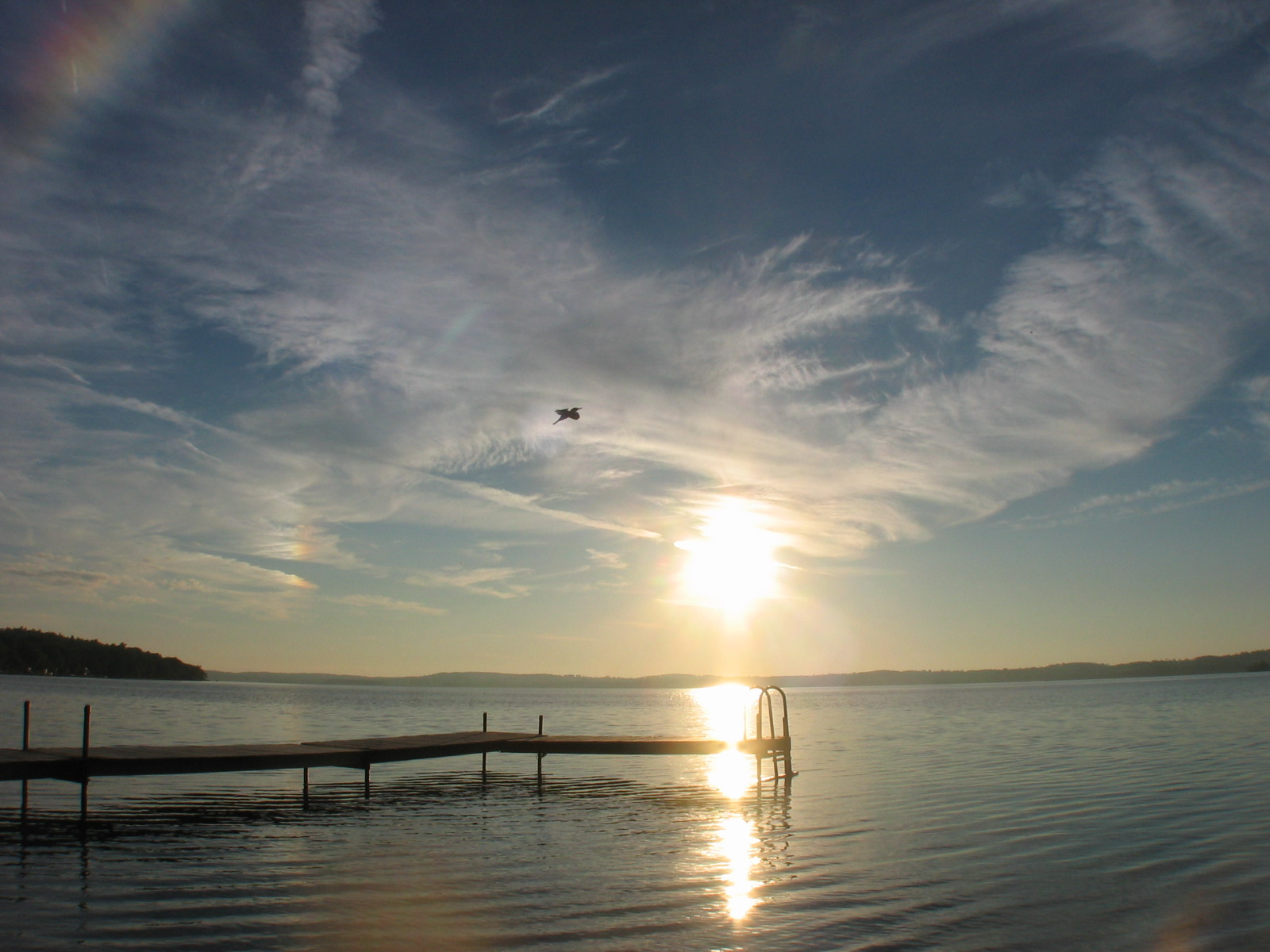 Taken by me from the south shore of the Rice Lake, Ontario, Canada, about 2 km west of Gores Landing, facing roughly north-west. The timestamp is wrong. It was taken on Tuesday, August 29th, 2006.